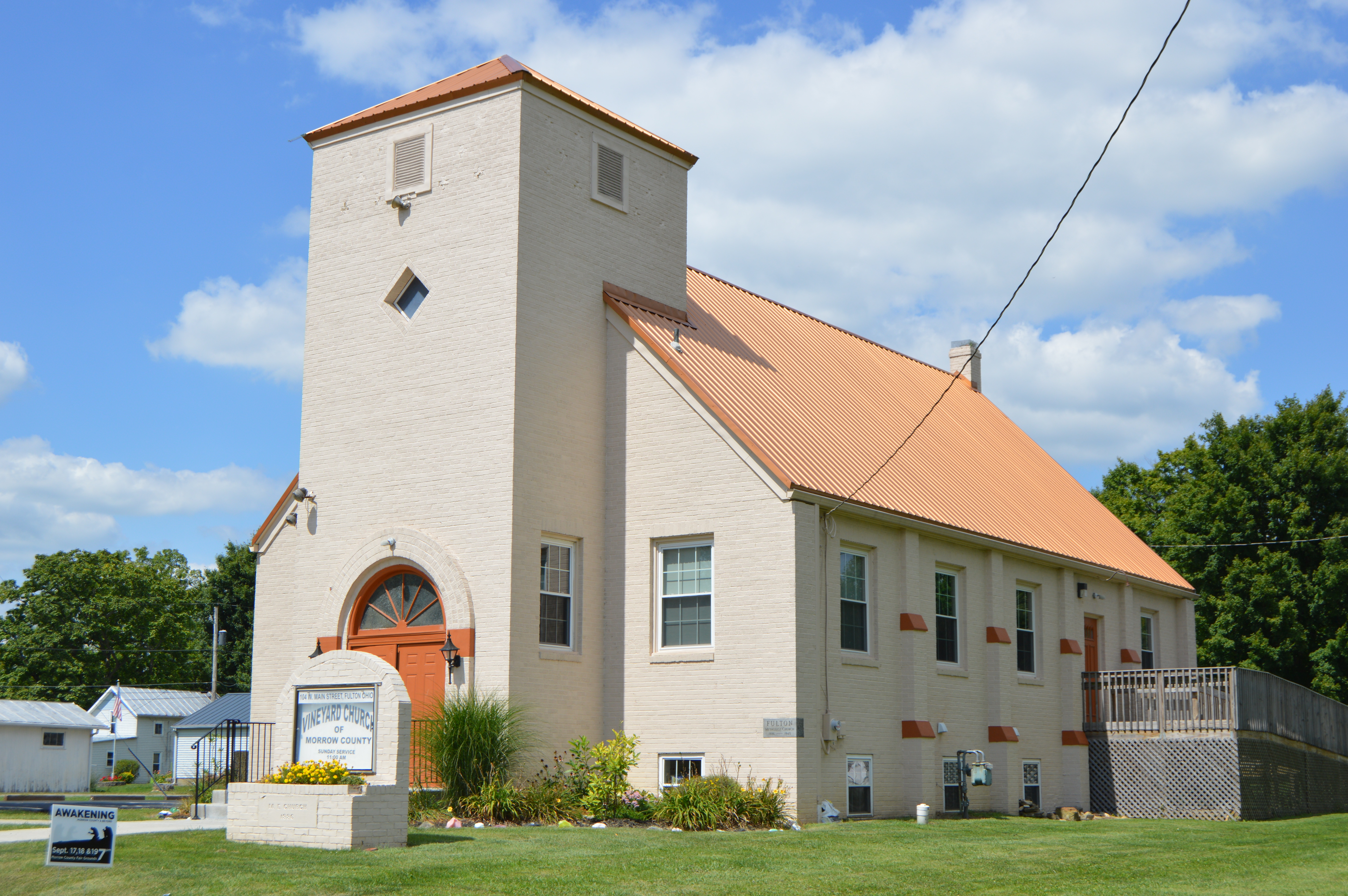 Front and eastern side of the Vineyard Church of Morrow County (formerly the Fulton Methodist Church), located at 104 W. Main Street in Fulton, Ohio, United States. It was built in 1886.